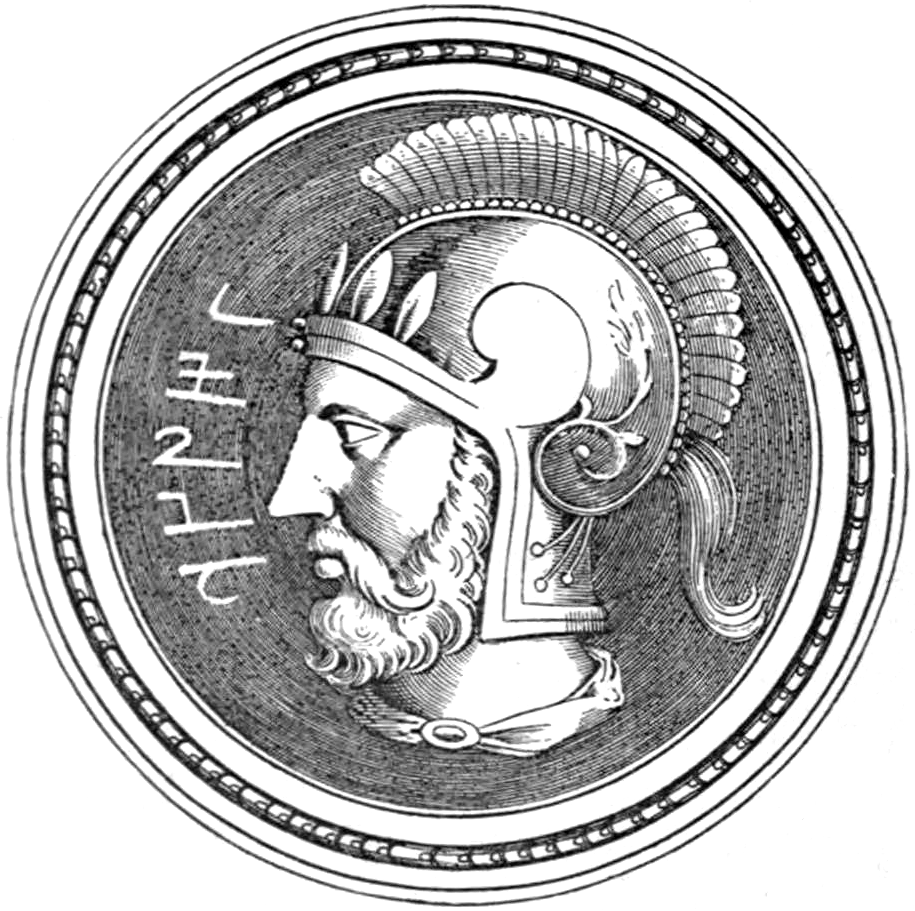 Line drawing of Hannibal